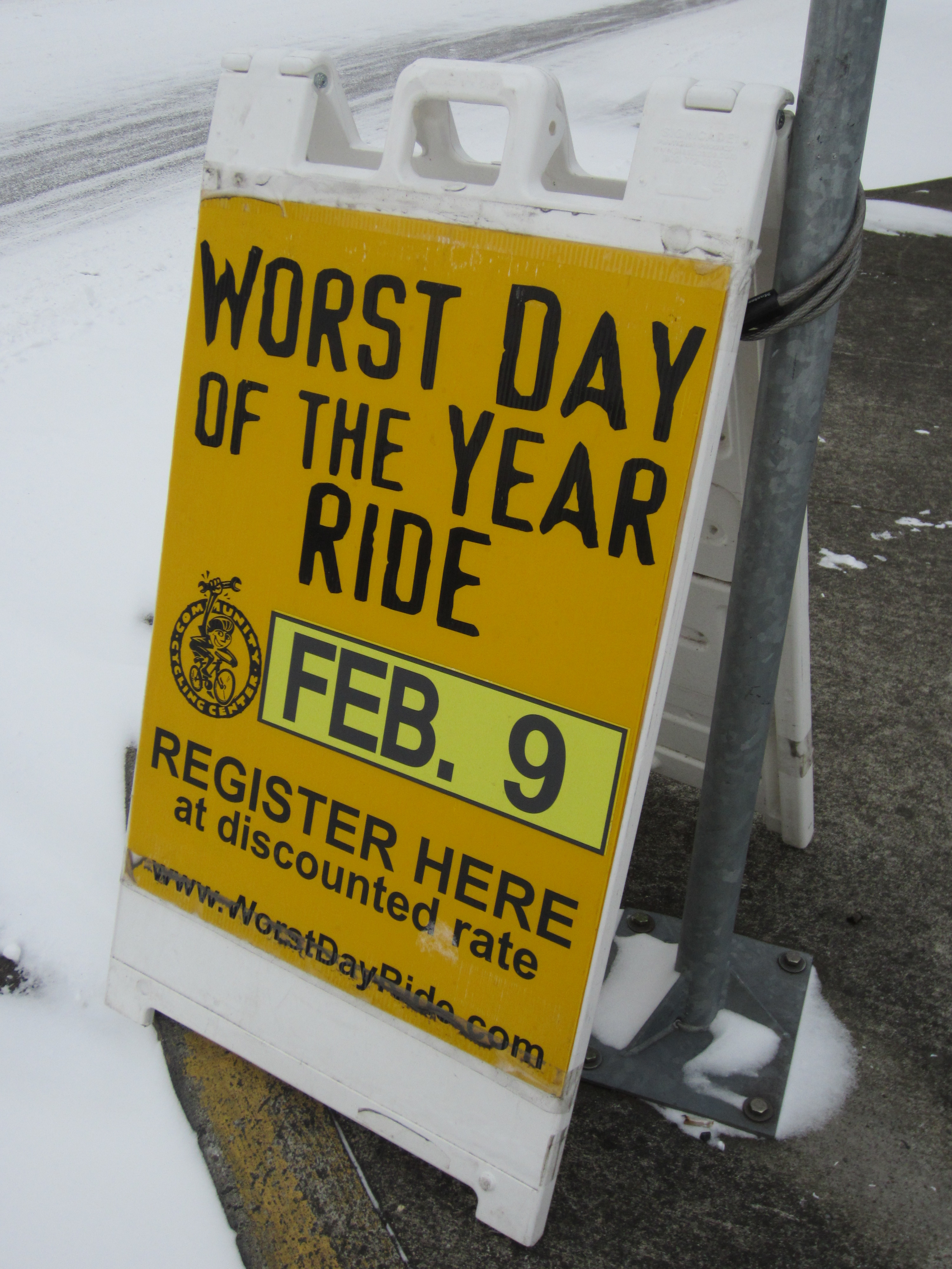 Worst Day of the Year Ride sign, Woodstock, Portland, Oregon (2014). Ironically, the event was postponed from the date shown in the photo, Feb. 9, because the heavy accumulation of snow and ice on the ground on that date made the conditions so poor as to be judged unsafe for this annual bike-riding event.